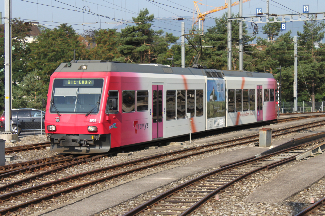 YSteC Be 2/6 2000 arriving at Yverdon-les-Bains station.